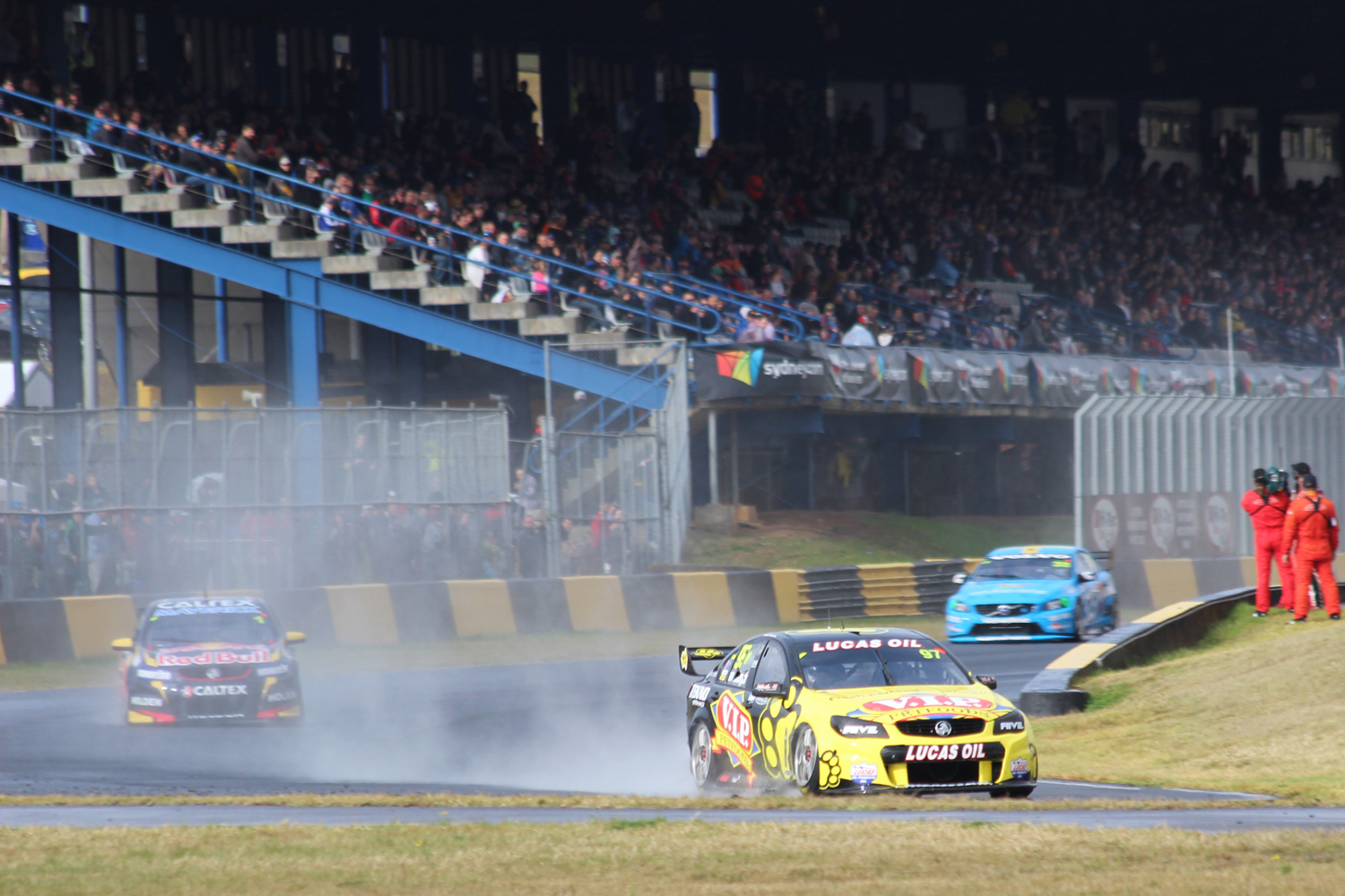 Shane Van Gisbergen leads Jamie Whincup and Scott McLaughlin in the first race of the 2014 Sydney Motorsport Park 400.